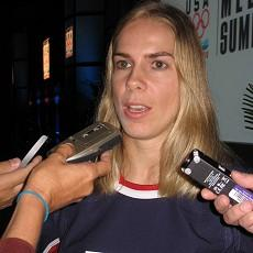 Jenny Potter talks to reporters during US Women's hockey team media event for the 2010 Winter Olympics.